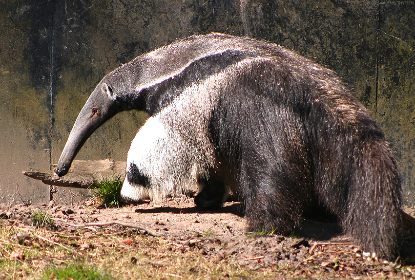 Giant anteater (Myrmecophaga tridactyla), Copenhagen Zoo, Denmark, 2005.